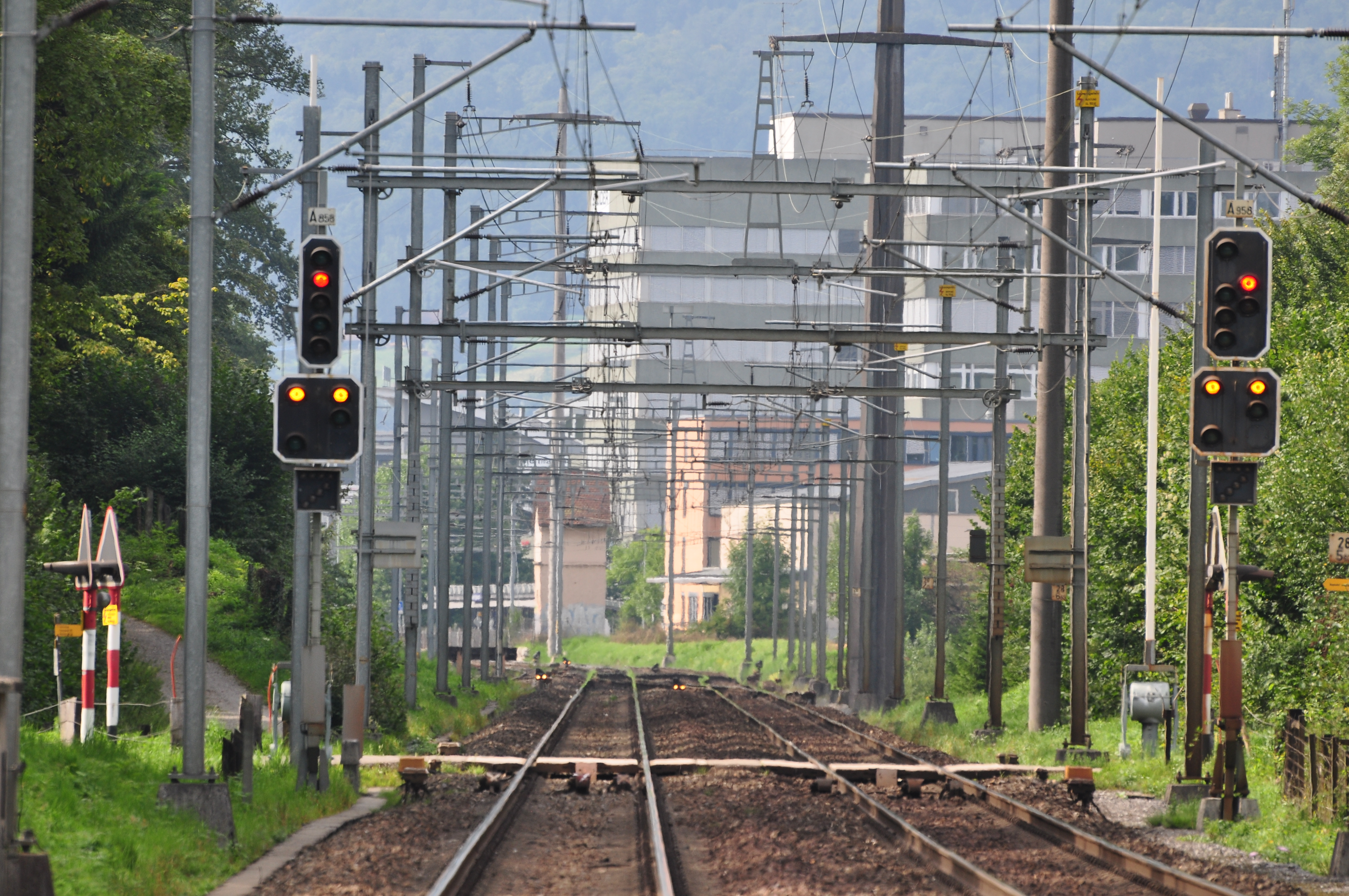 Regensdorf (Switzerland) as seen from nearby Altburg